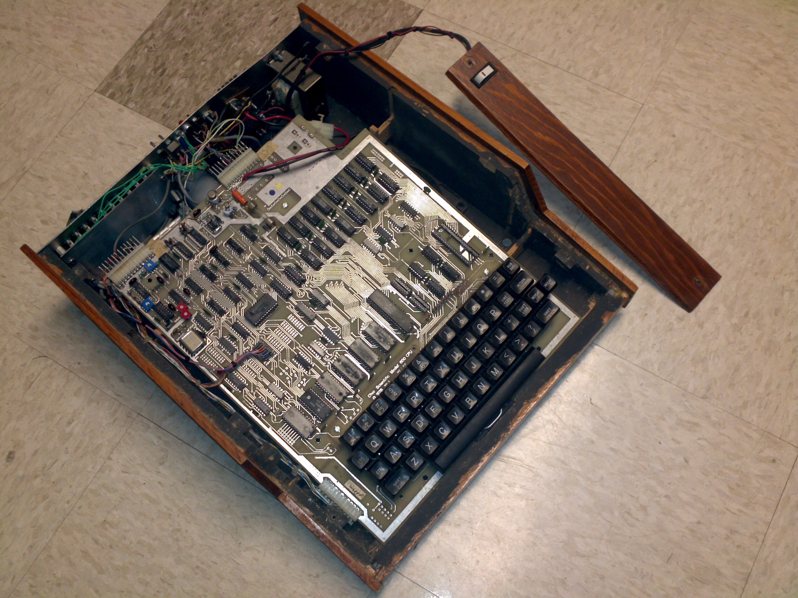 Ohio Scientific Superboard. Picture was taken by myself of a computer that I purchased in the mid-70's. The manufacturer is no longer in existence. The picture may be used freely if attributed to myself, John DeRosa